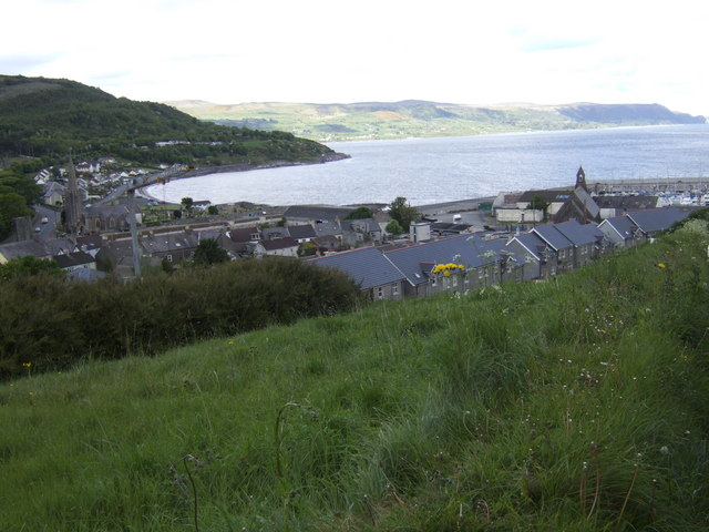 Glenarm Bay Fields above the town to the south.